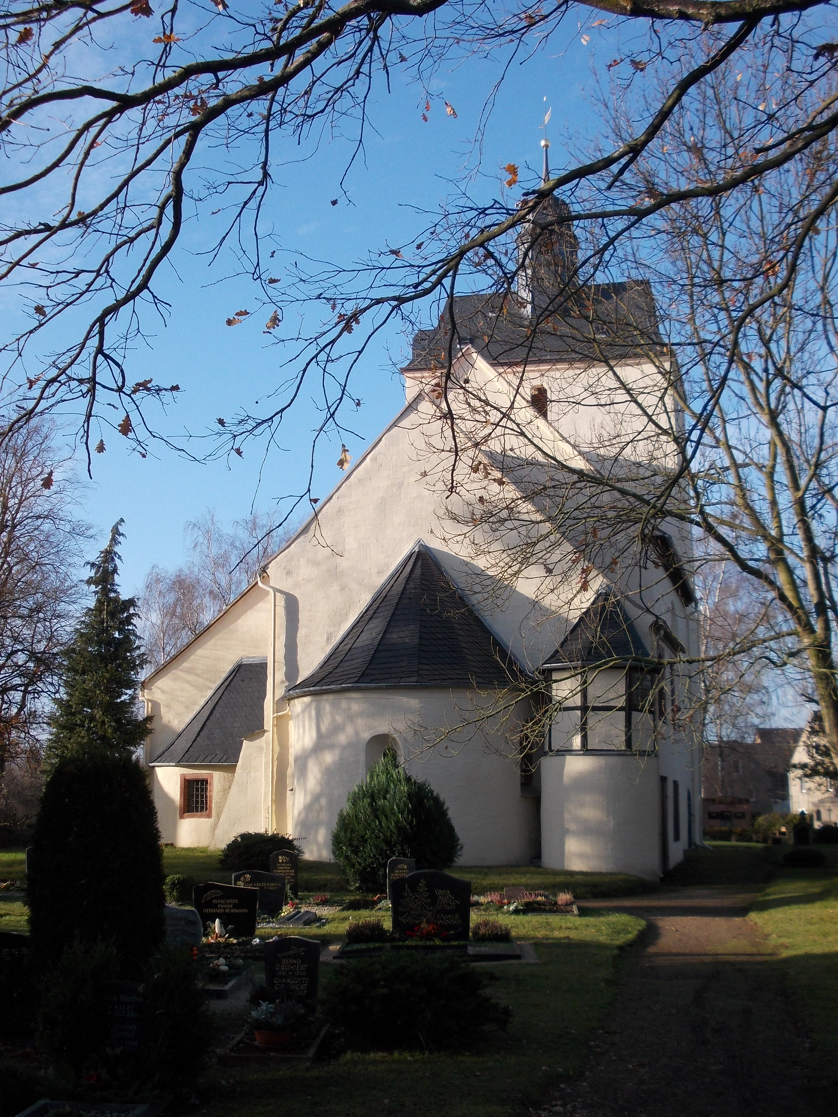 The church of Pomssen (Leipzig district, Saxony)